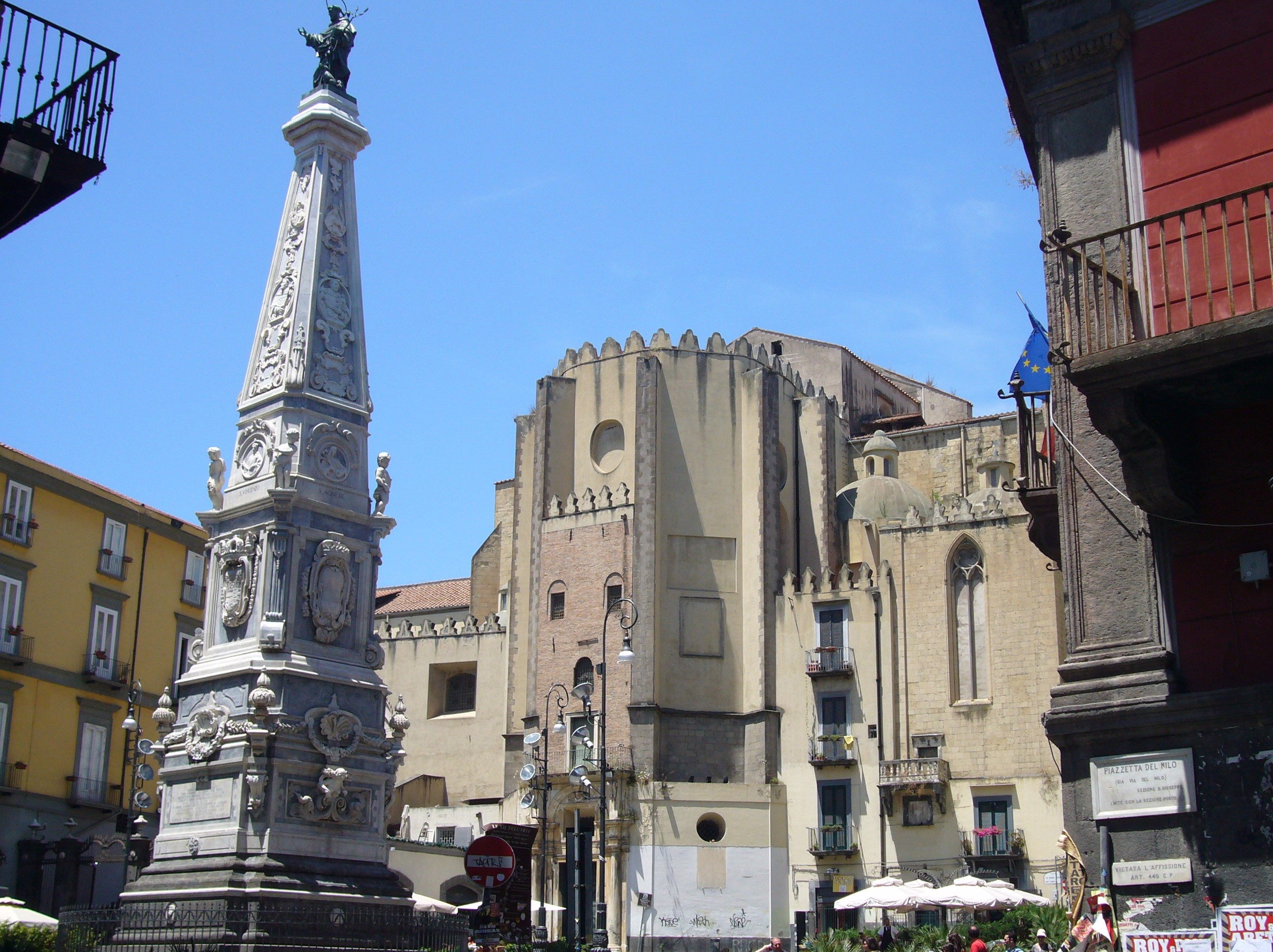 Napoli - piazza San Domenico Maggiore e guglia